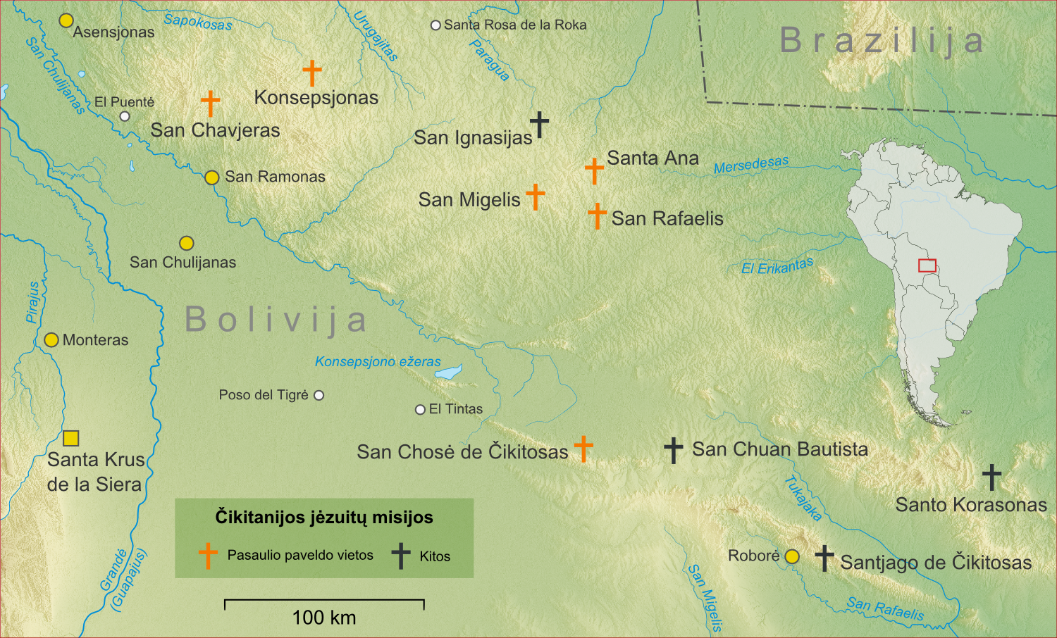 Map showing the present location of the Jesuit Missions of the Chiquitos in Bolivia (Lithuanian version)